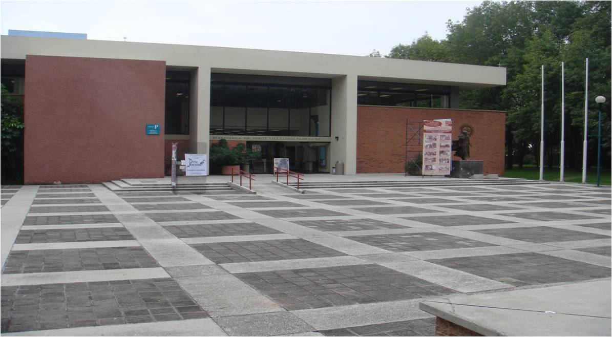 ITESO's Library